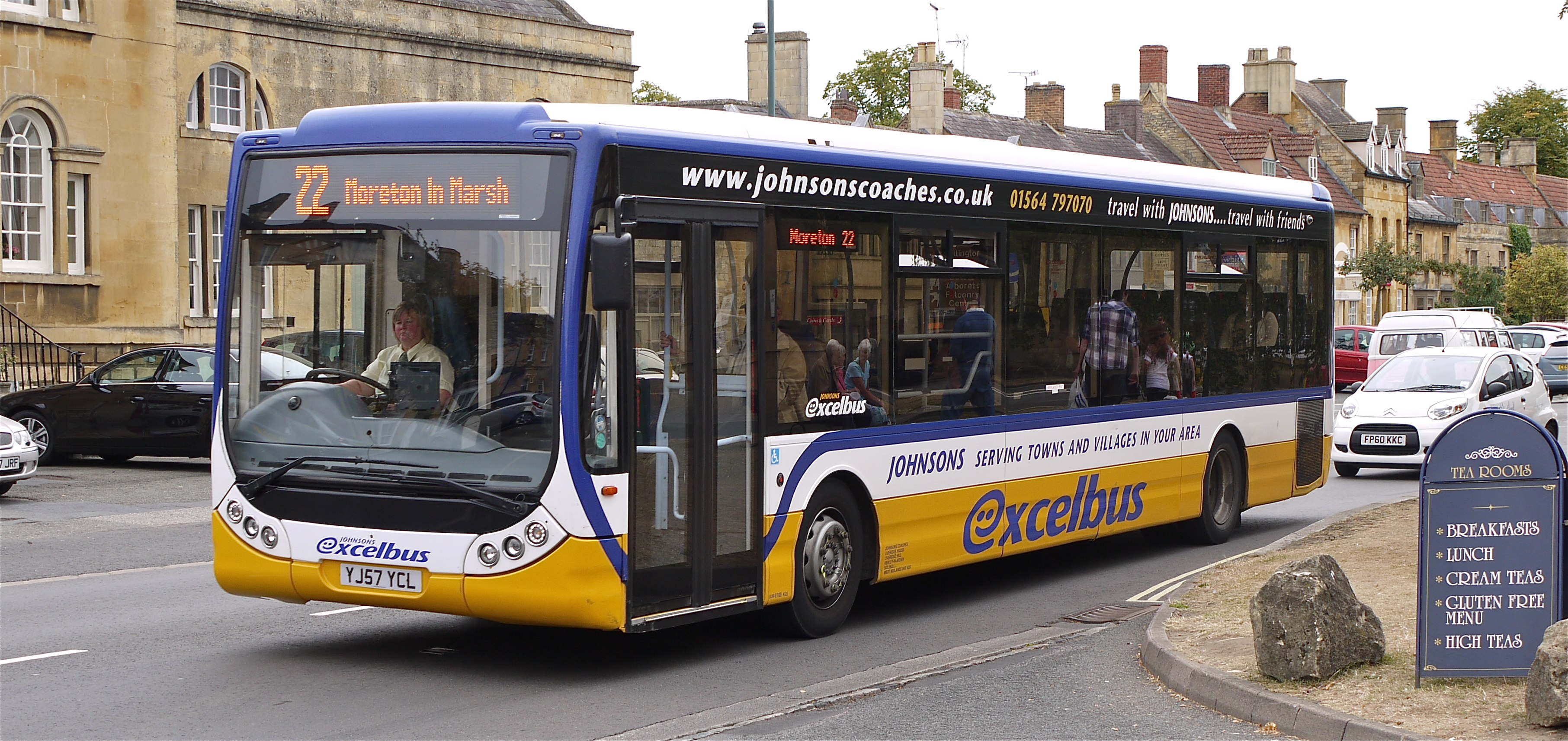 A Johnson's Excelbus on route 22 in Moreton-in-Marsh, Gloucestershire. The bus is an Optare Tempo, registration mark YJ57 YCL.